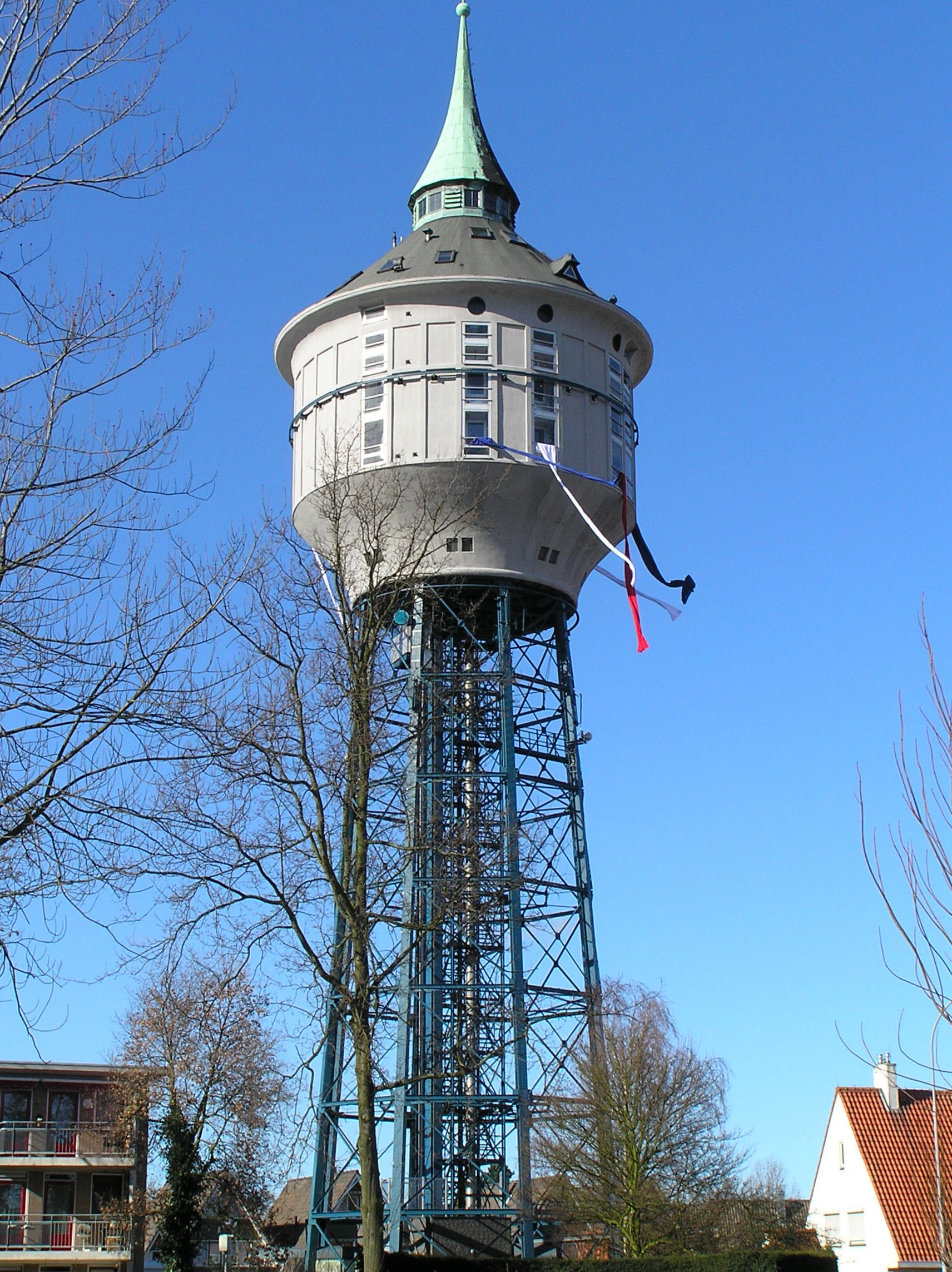 Water tower of Goes